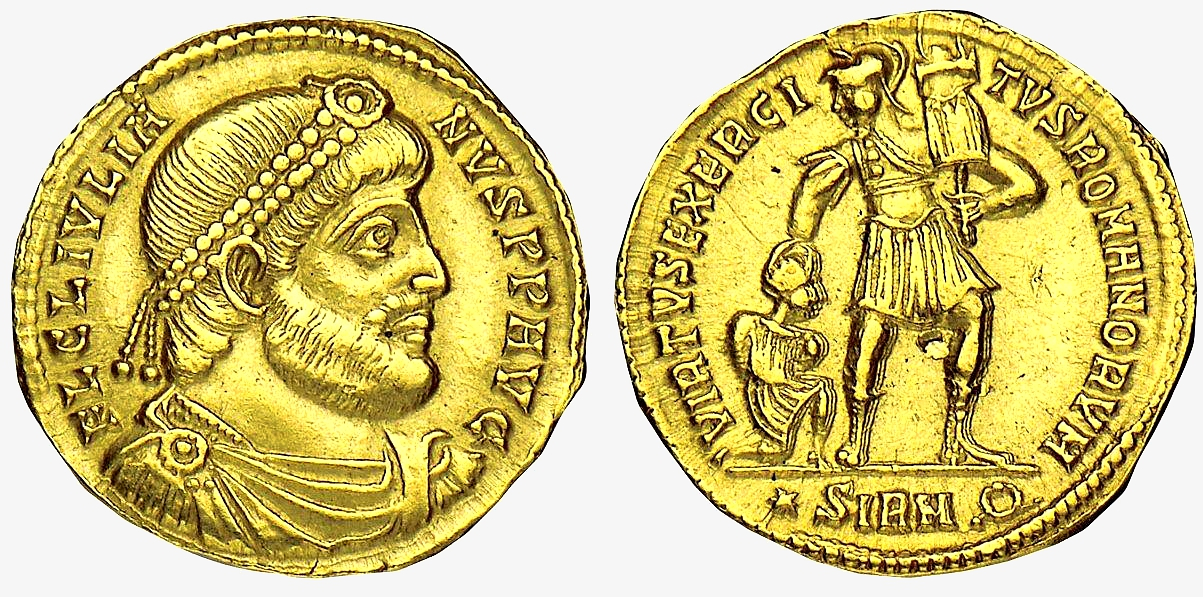 JULIAN II. 360-363 AD. AV Solidus (4.47 gm). Antioch mint. Struck 361-363 AD. FL CL IVLIA-NVS P P AVG, Pearl-diademed , draped, and cuirassed bust right VIRTUS EXERCITUS ROMANORUM, Soldier standing right, holding trophy and grabbing hair of bound captive; ANTI. RIC VIII 201; Depeyrot 15/2. Good VF. From the Garth R. Drewry Collection.